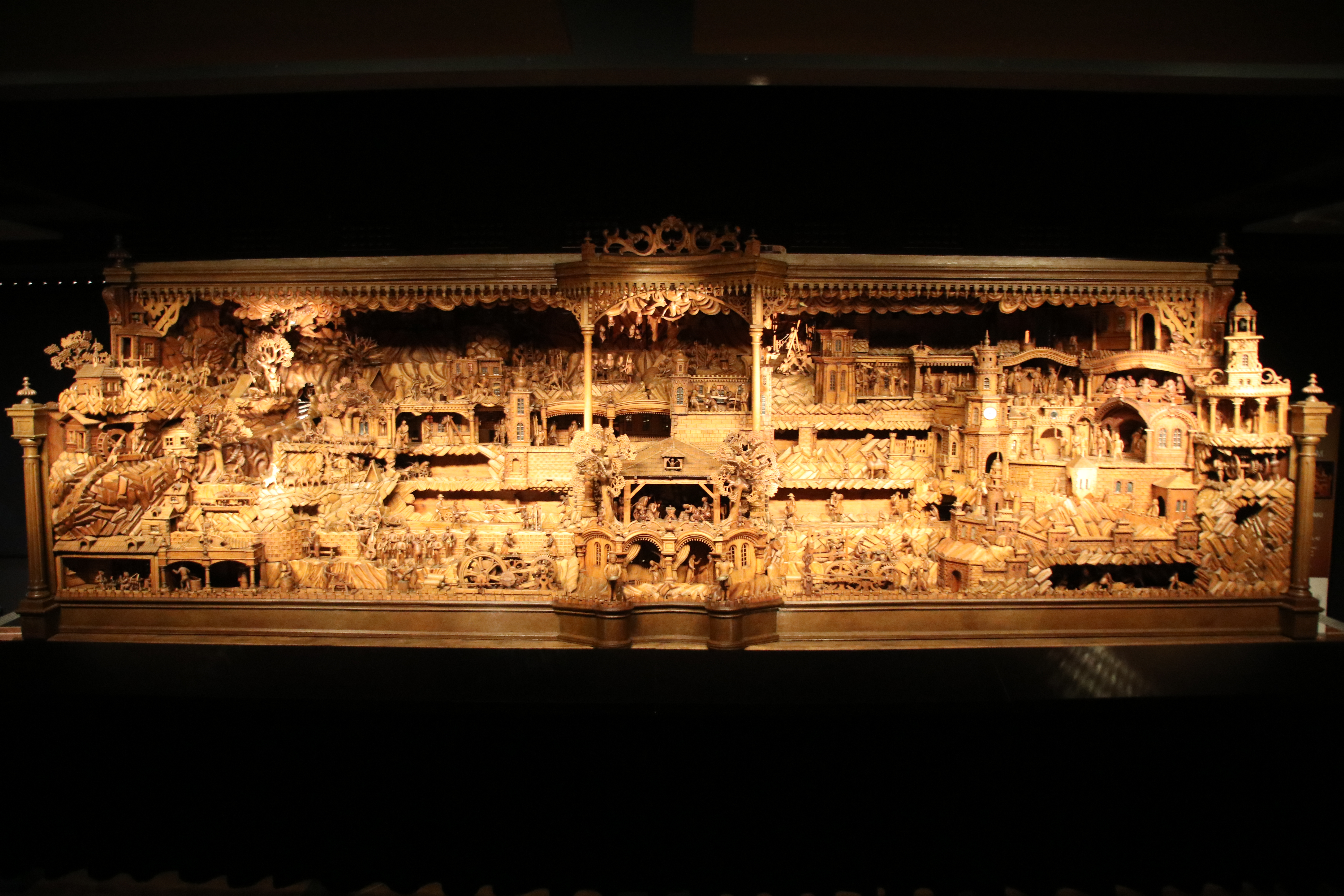 Mechanical nativity scene. Bethlehem of Třebechovice (Probošt's Christmas crib).